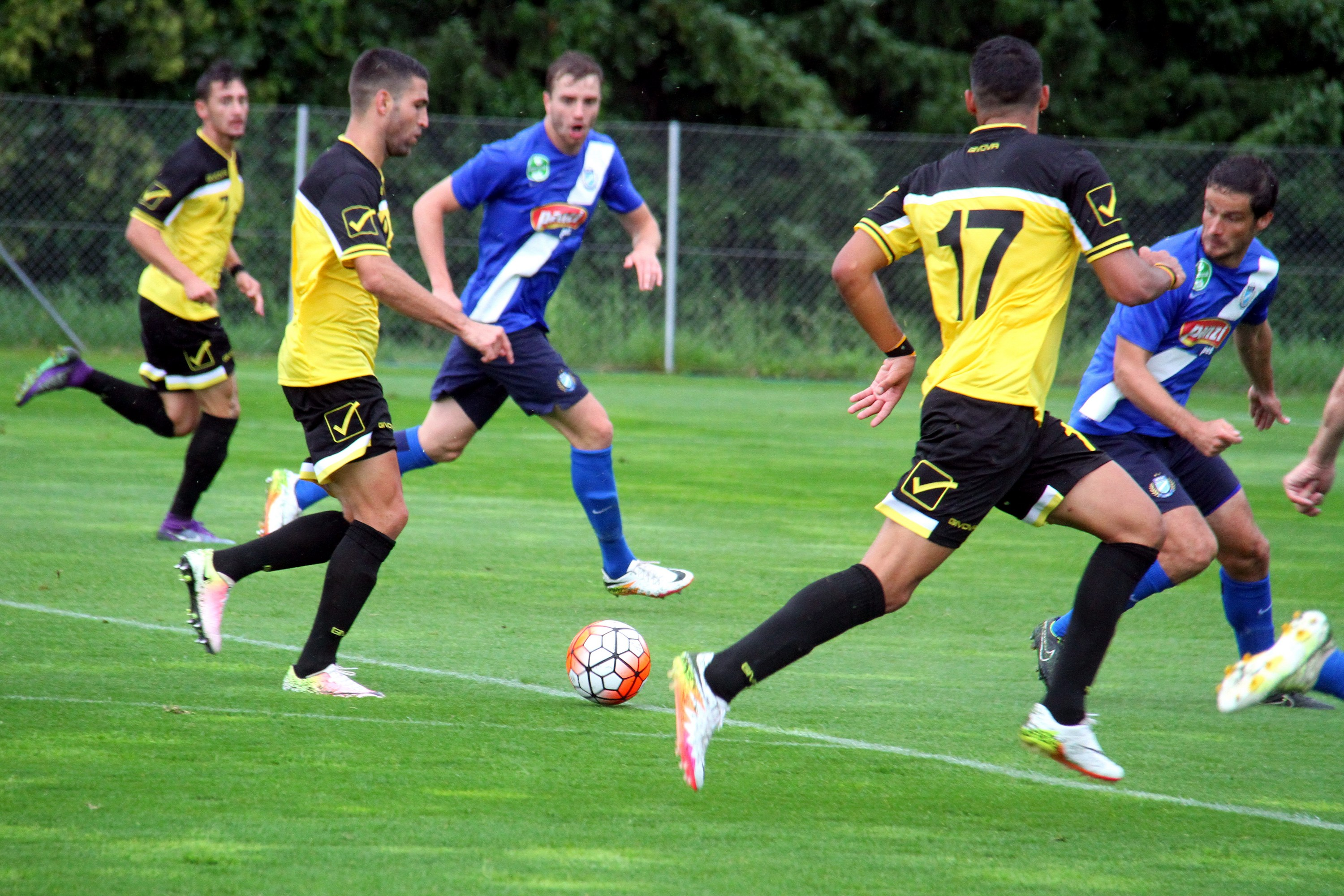 Friendly match between Beitar Jerusalem F.C. (yellow shirts) and MTK Budapest FC (blue shirts) at 2016-06-18 in Bad Erlach (Austria. – The photo shows